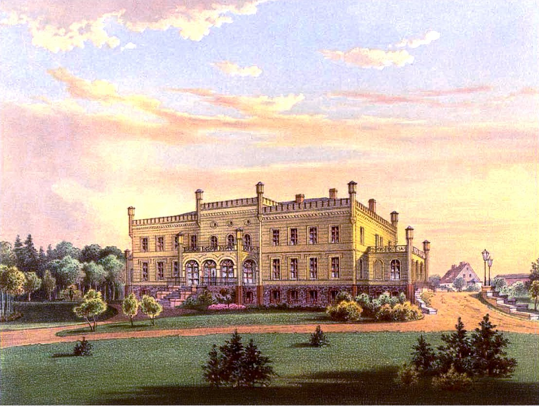 Palace in Jerzkowice